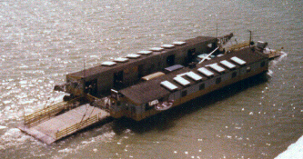 The Woolston ferry on its last day of service across the River Itchen